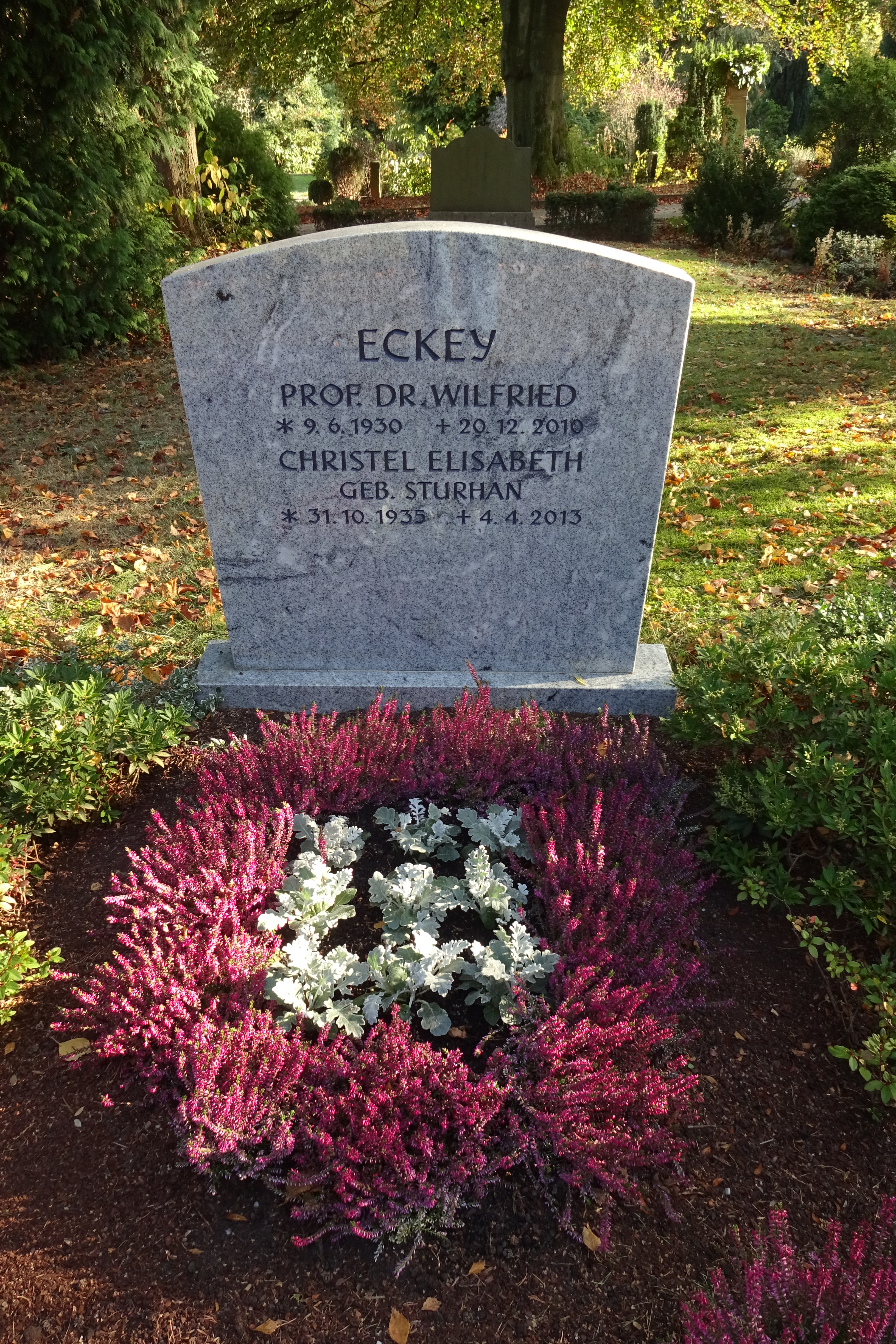 Grave of protestant theologian Wilfried Eckey in Reformierter Friedhof Hochstraße in Wuppertal